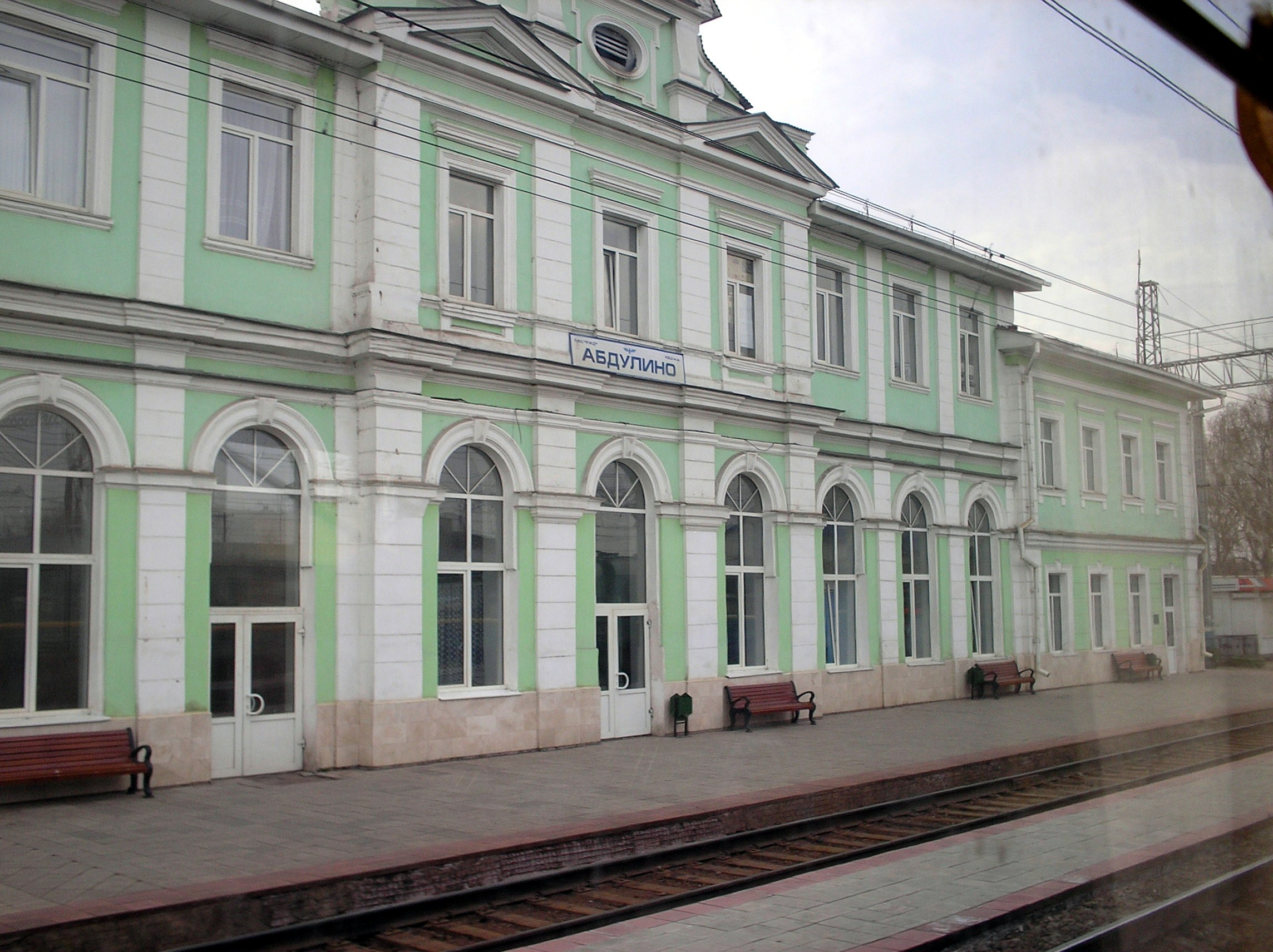 Abdulino railway station in Orenburg Oblast, view from the train window